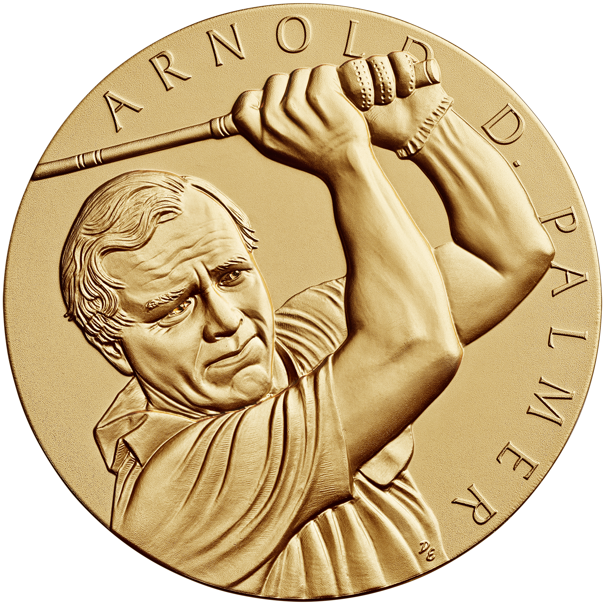 Bronze duplicate, Congressional Gold Medal awarded to Arnold Palmer (front)